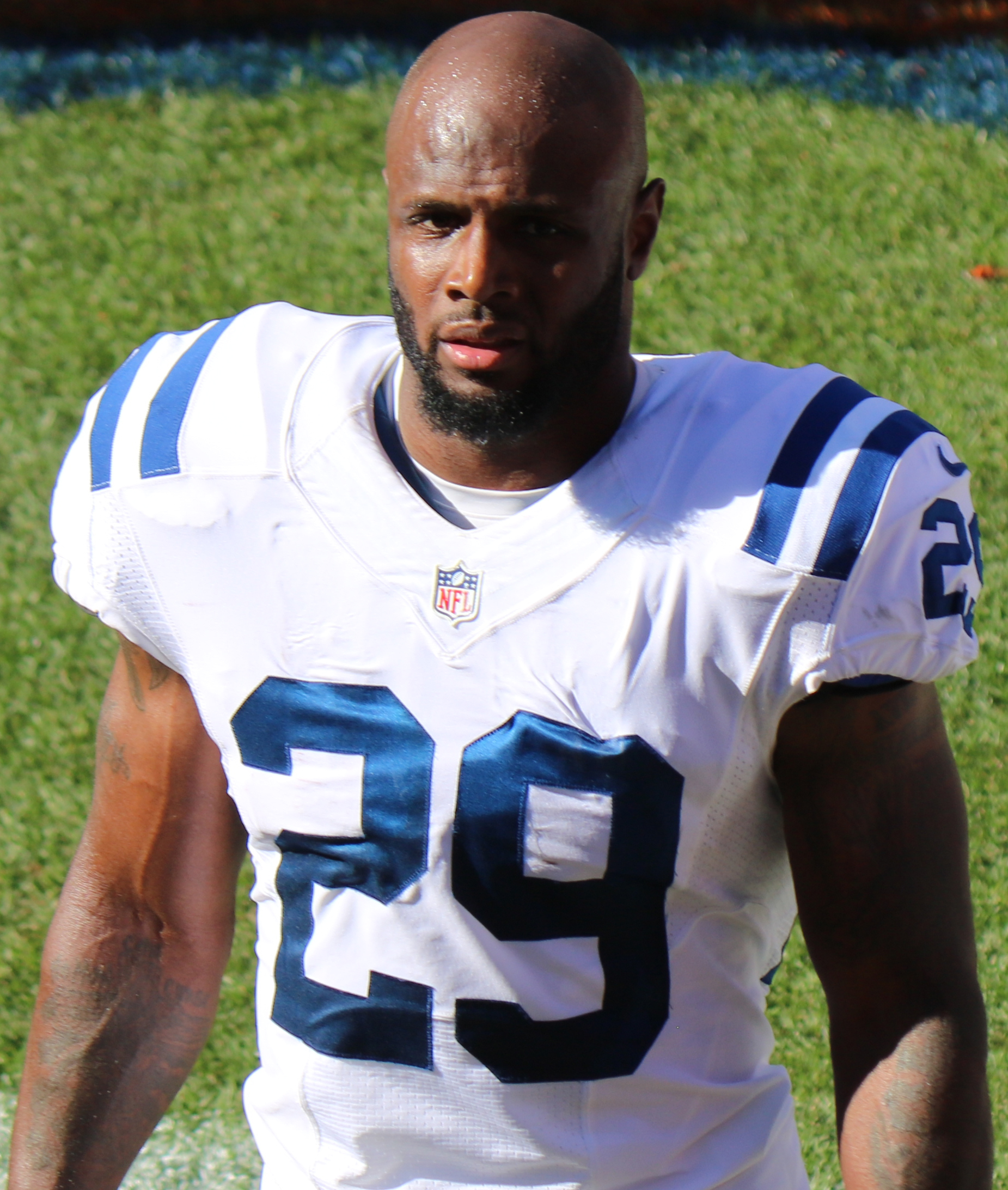 Mike Adams, a player on the National Football League.